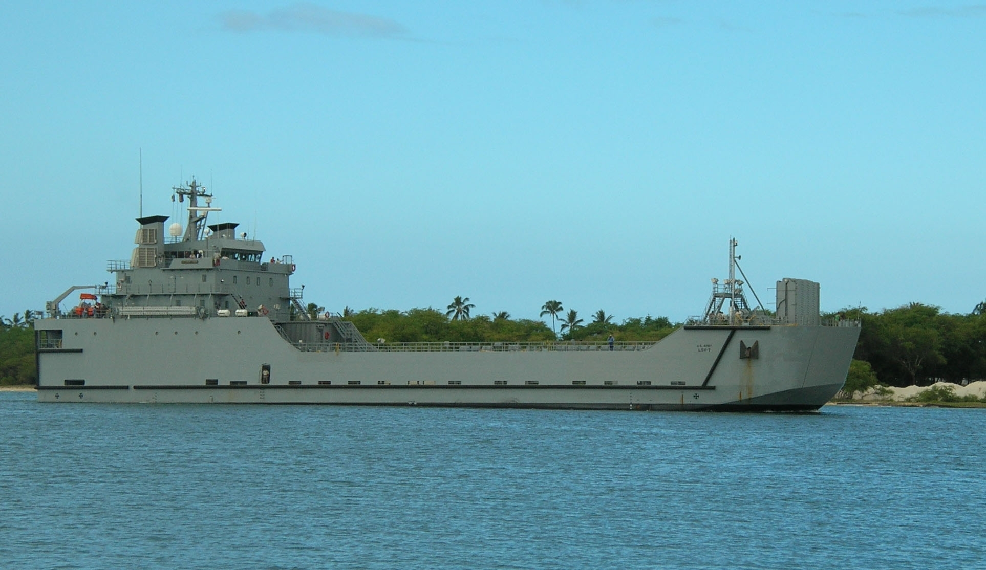 The new Army logistic support vessel USAV SSGT Robert T. Kuroda (LSV-7) has arrived at its home port of Honolulu, Hawaii, after a 5,000-mile delivery voyage from Pascagoula, Miss.